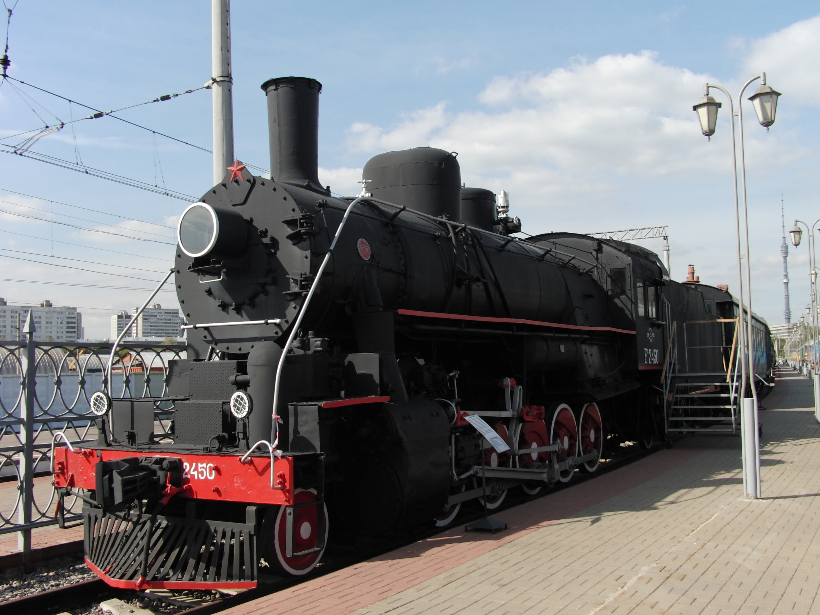 Ea 2450 (USRA Russian Decapod) steam locomotive